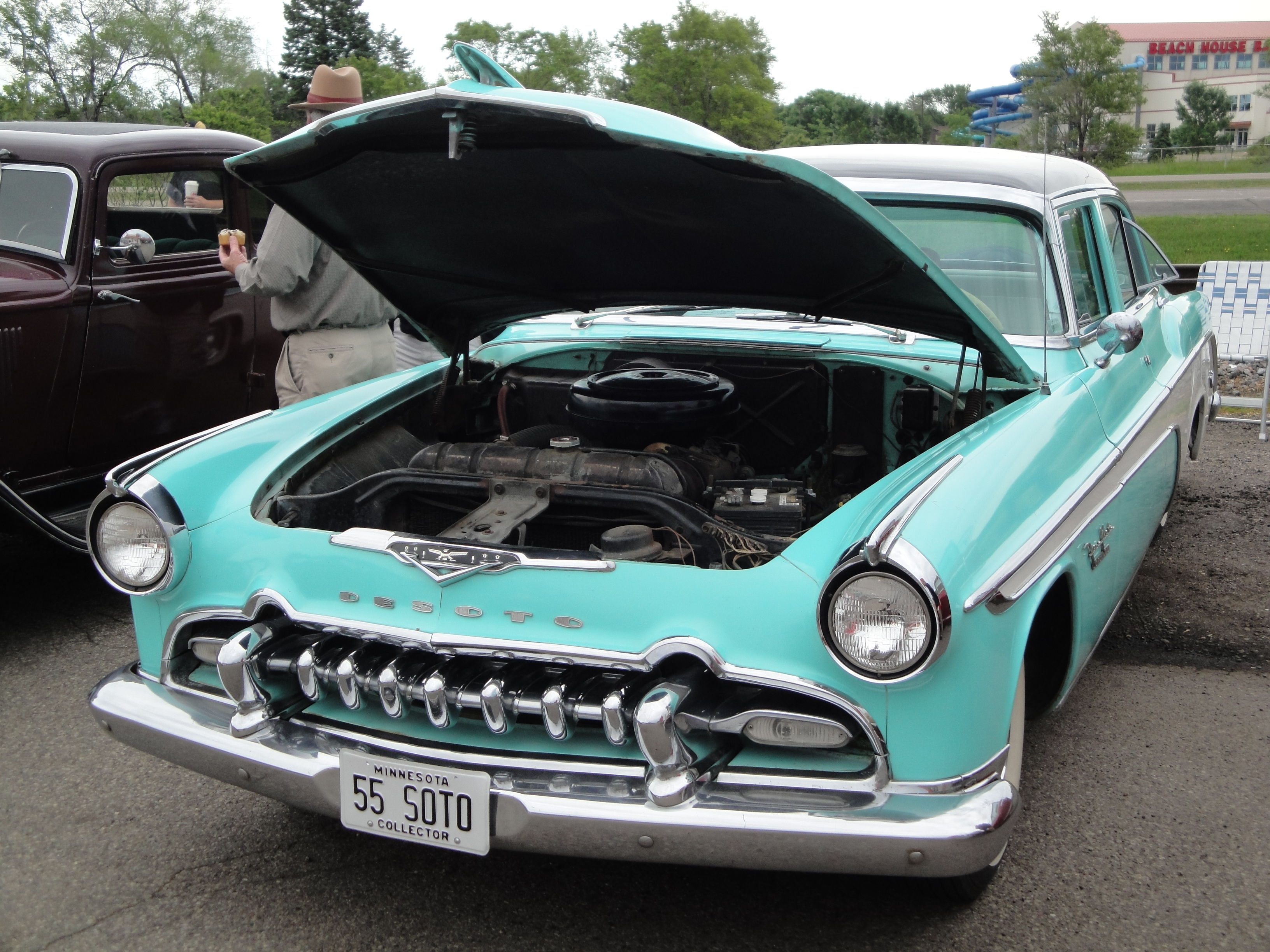 W.P.C. Restorers Club 10,000 Lakes Region Car Show June 12, 2011 Wagner's Drive in